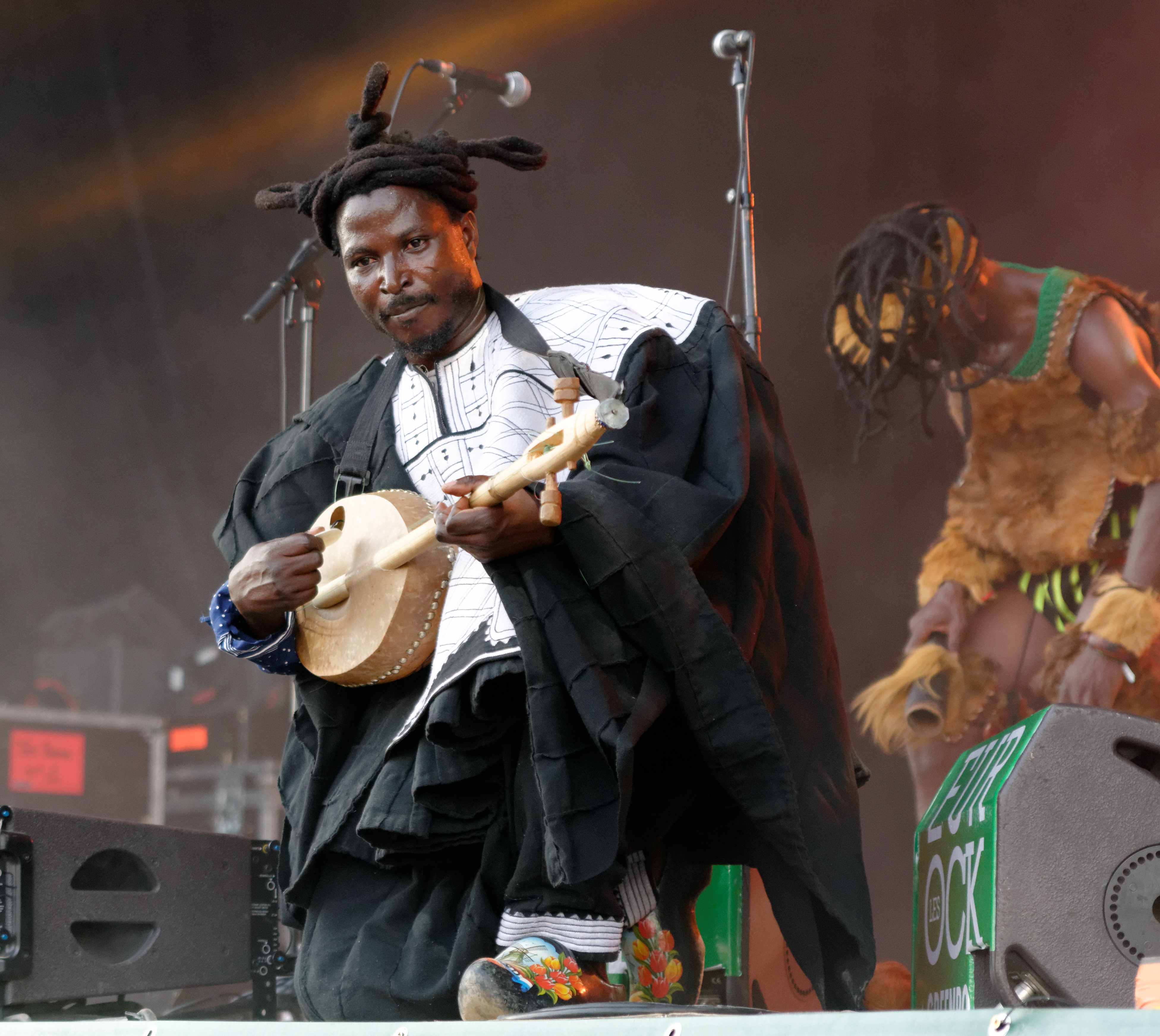 Personality rights warningAlthough this work is freely licensed or in the public domain, the person(s) shown may have rights that legally restrict certain re-uses unless those depicted consent to such uses. In these cases, a model release or other evidence of consent could protect you from infringement claims.